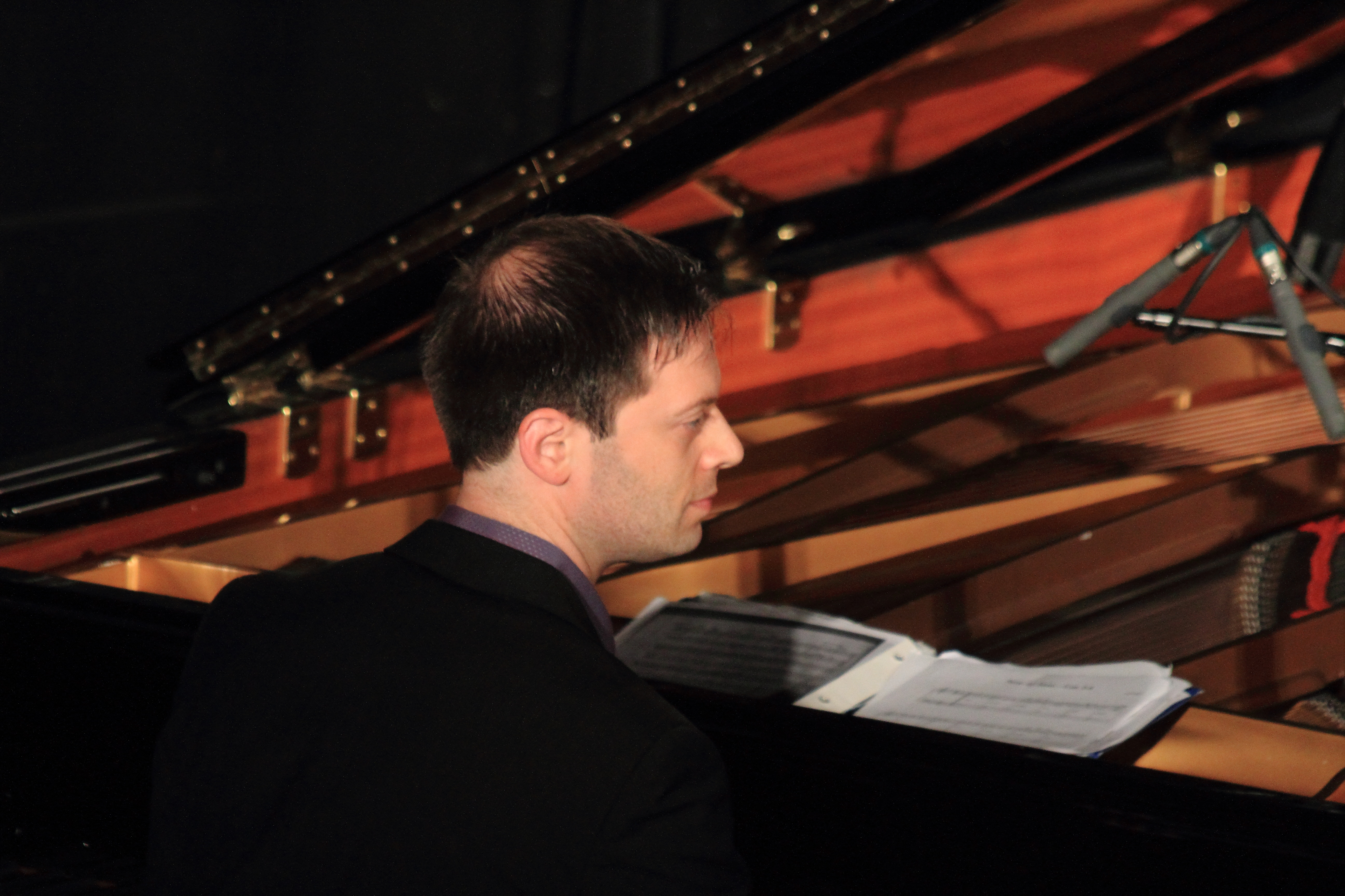 Adam Birnbaum with the Al Foster Quartet at INNtöne Jazzfestival 2016.